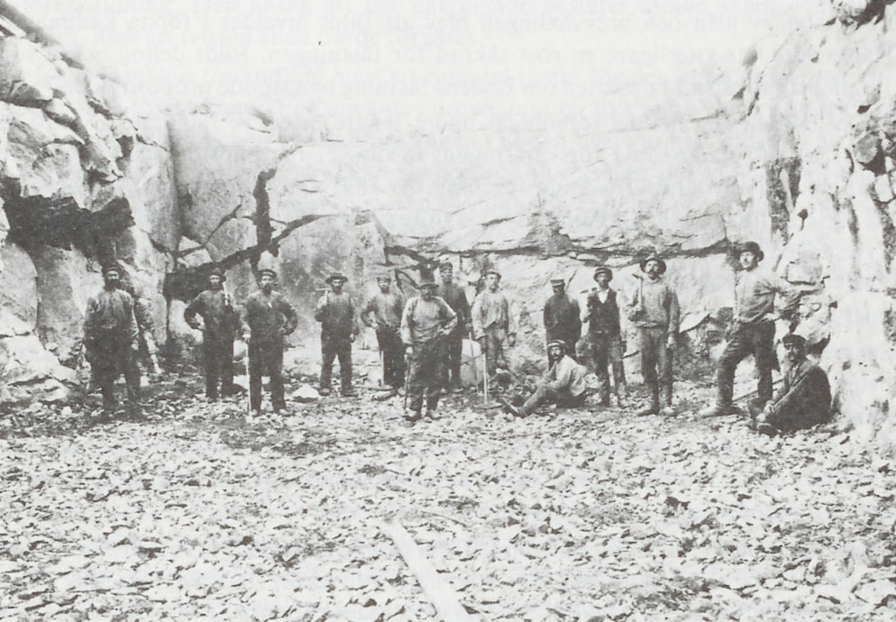 A blasting team in work at one of the forts part of Boden Fortress.